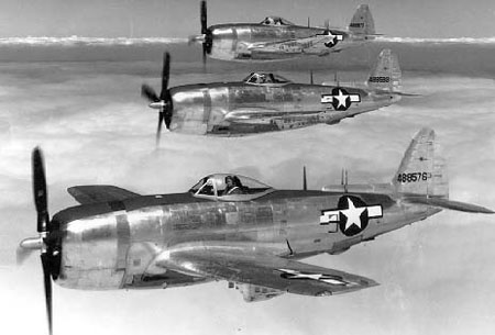 Republic P-47N-5 three ship formation (S/N 44-88576, 88589, 88577).